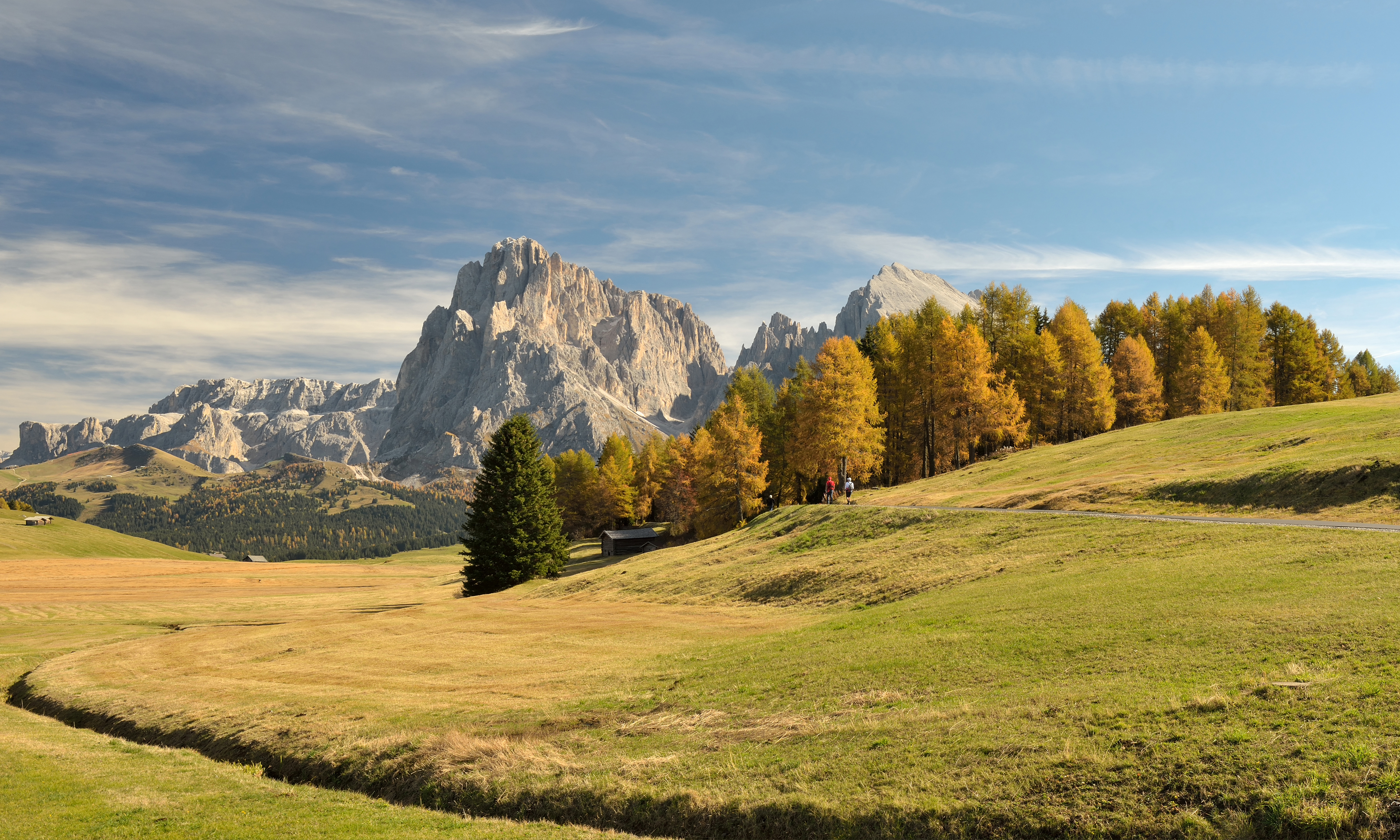 The Seiser Alm in South Tyrol, with the mountains of Langkofel group in the background